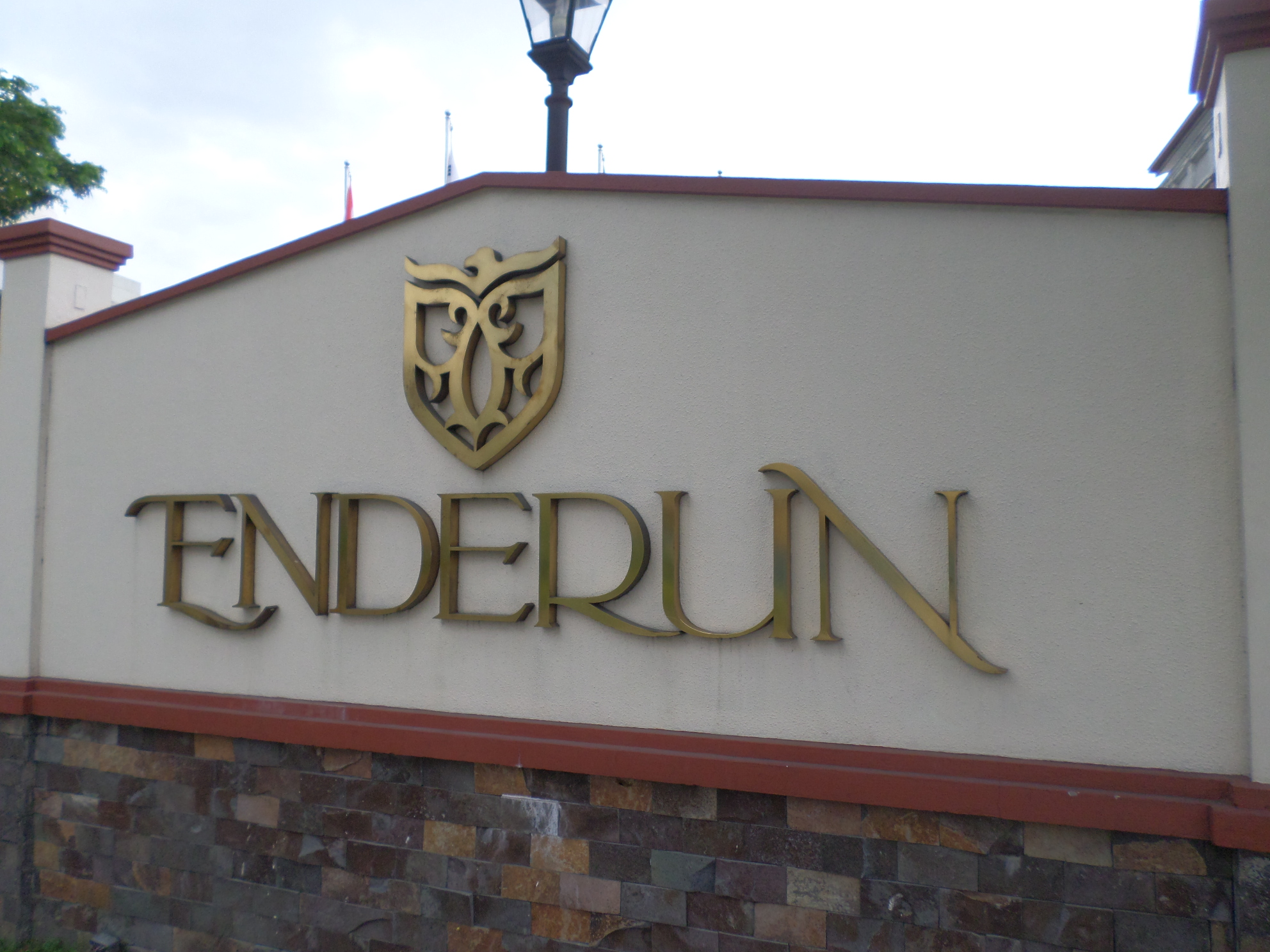 Enderun Colleges, Taguig, Metro Manila, Philippines